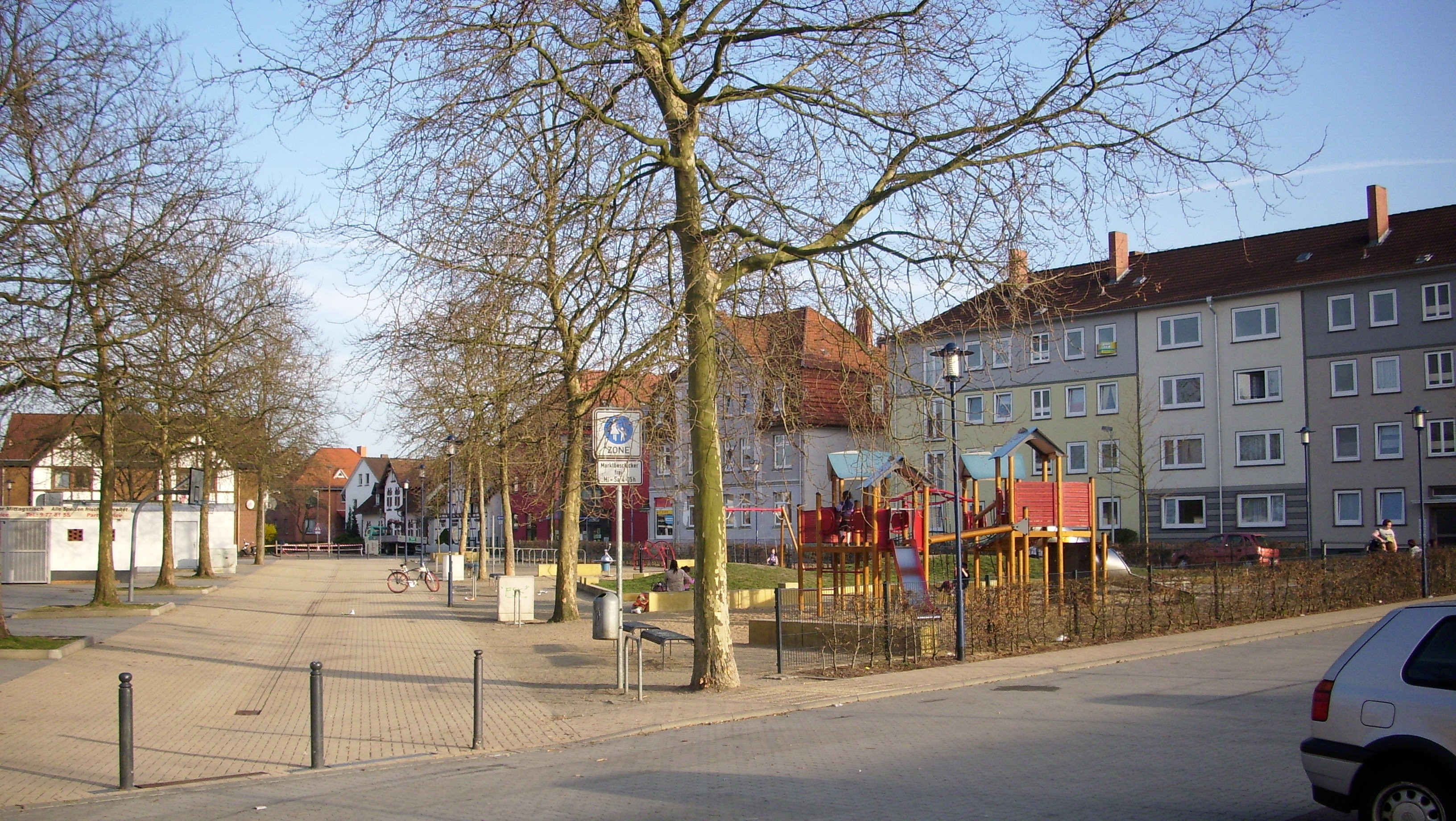 Heeseplatz in Celle, Lower Saxony, Germany